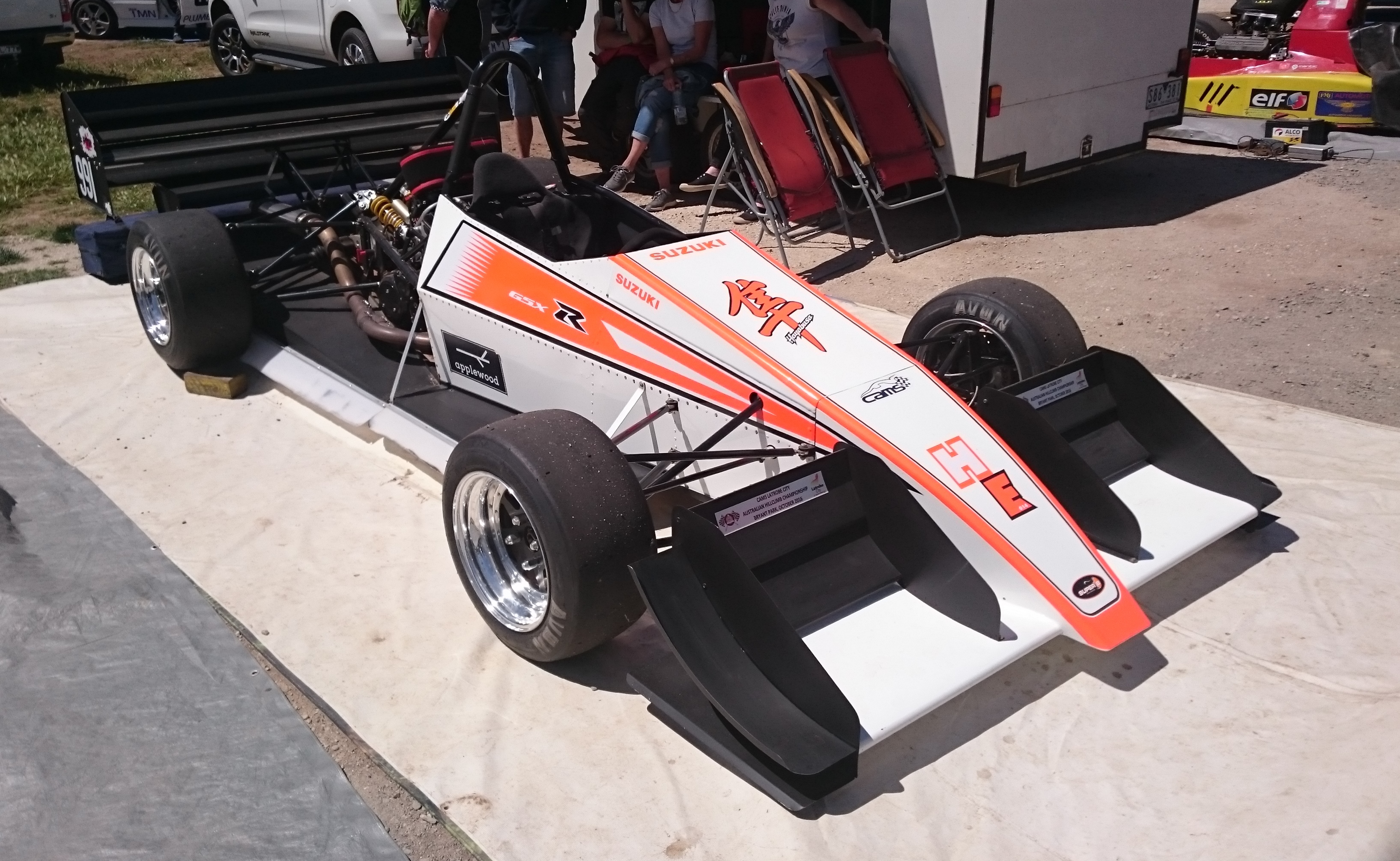 The Hayward of Brett Hayward at the 2017 Australian Hillclimb Championship, Collingrove Hillclimb, South Australia. Hayward went on to win the title, his third Australian Hillclimb Championship victory.